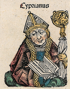 Illustration from the Nuremberg Chronicle